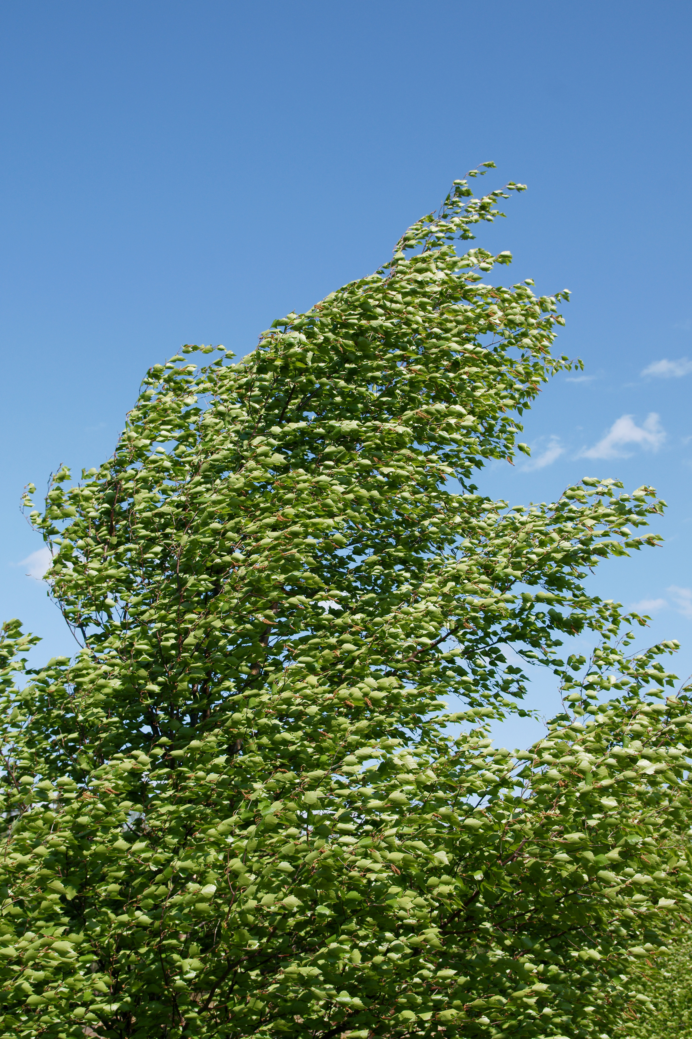 Wind blowing Silver Birch foliage.